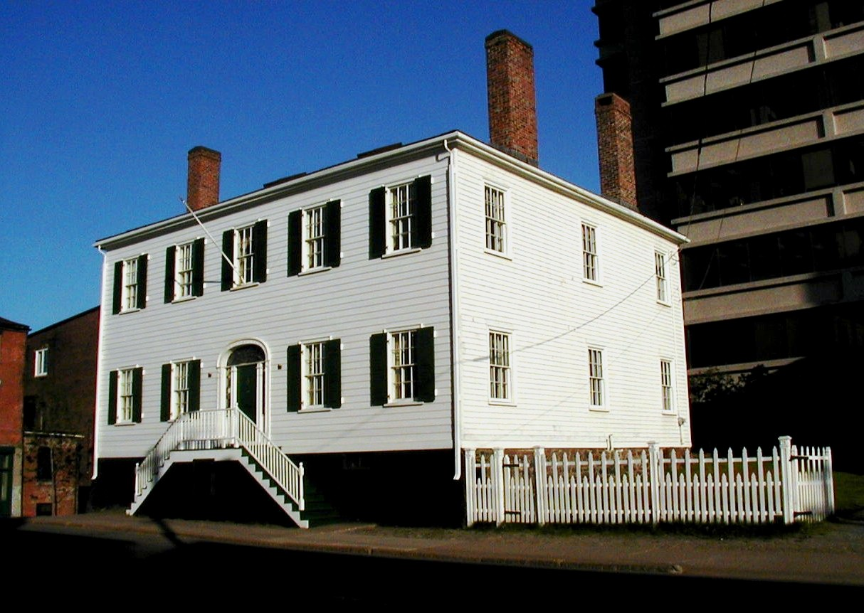 This Neoclassical building built circa 1811 has much in common with New England buildings of the Federal style. It was designated a National Historic Site of Canada in 1958.